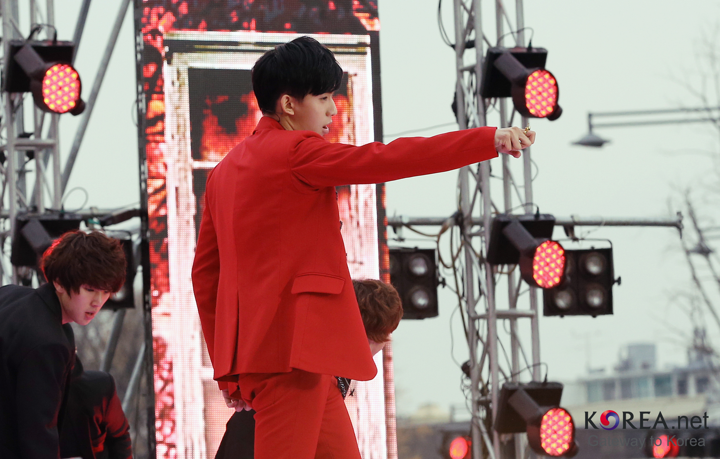 SBS Inkigayo. B1A4 '걸어본다'. Gwanghwamun, Seoul, Korea